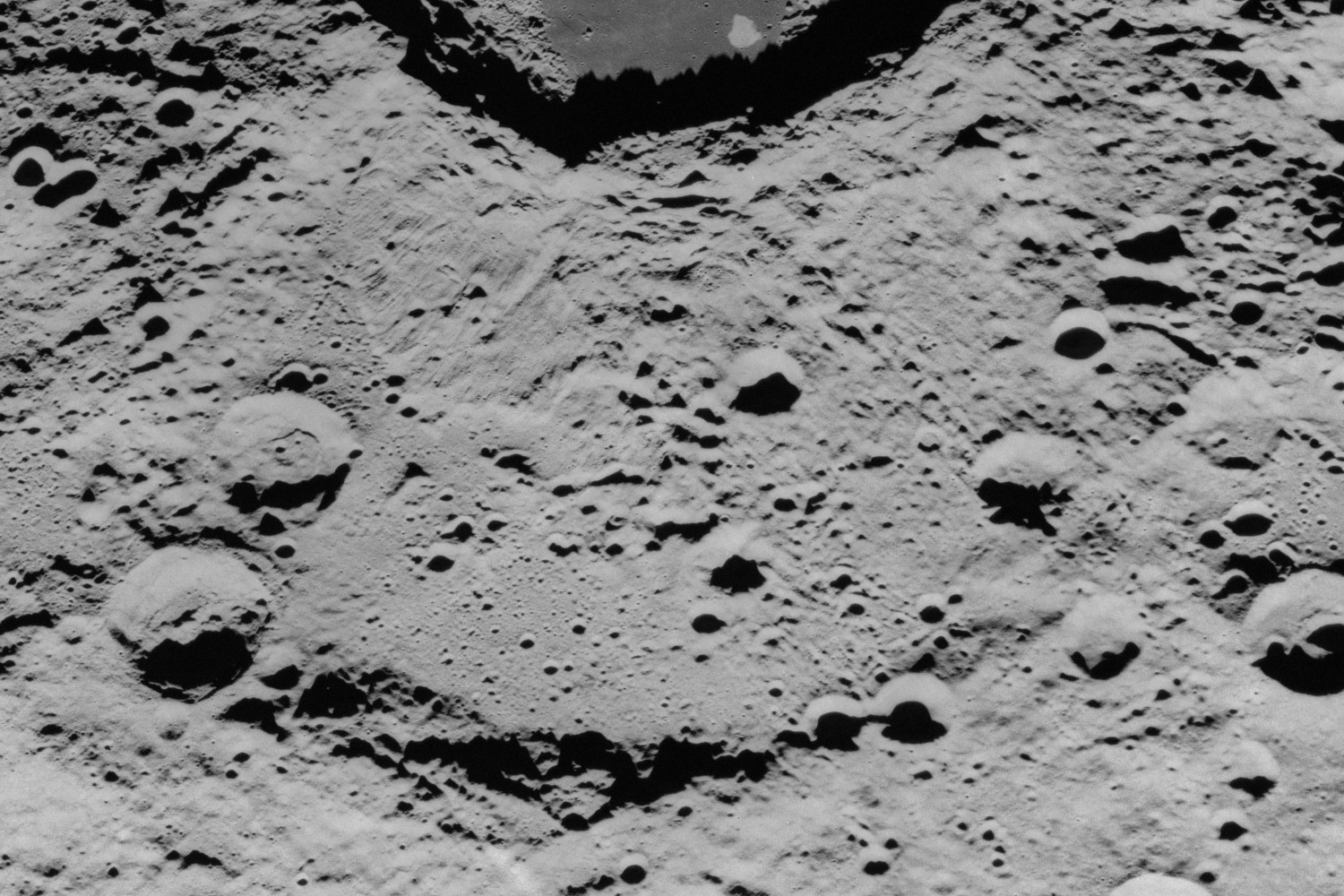 Oblique view of Fermi crater, on the moon, facing east. From Apollo 17 mapping camera during trans-Earth injection.